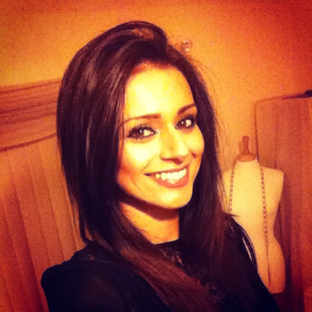 This is a Image of the UK Actress Bhavana Limbachia.